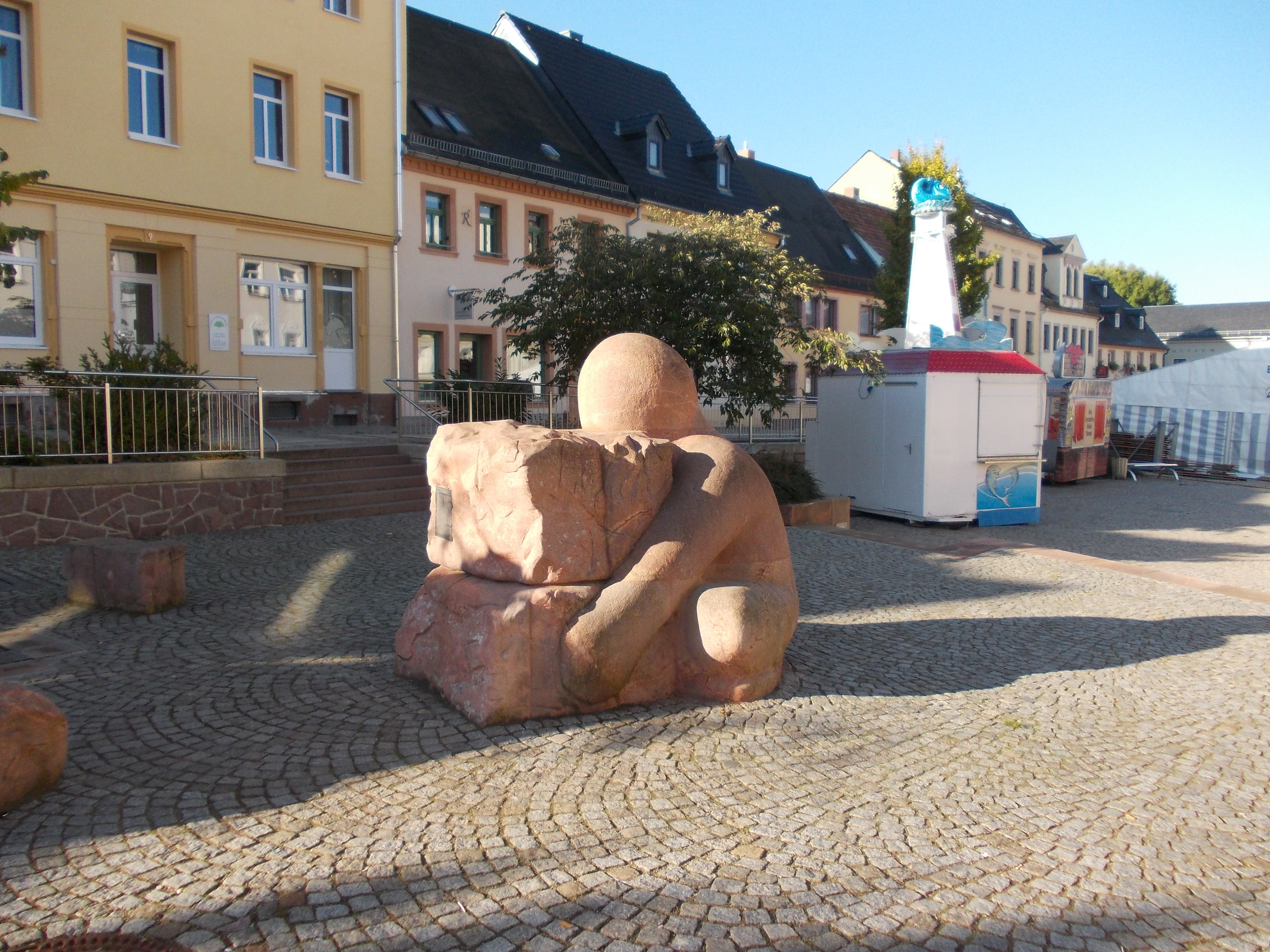 Fountain of fairy tales in the market square of Burgstädt (Mittelsachsen district, Saxony), representing local legends